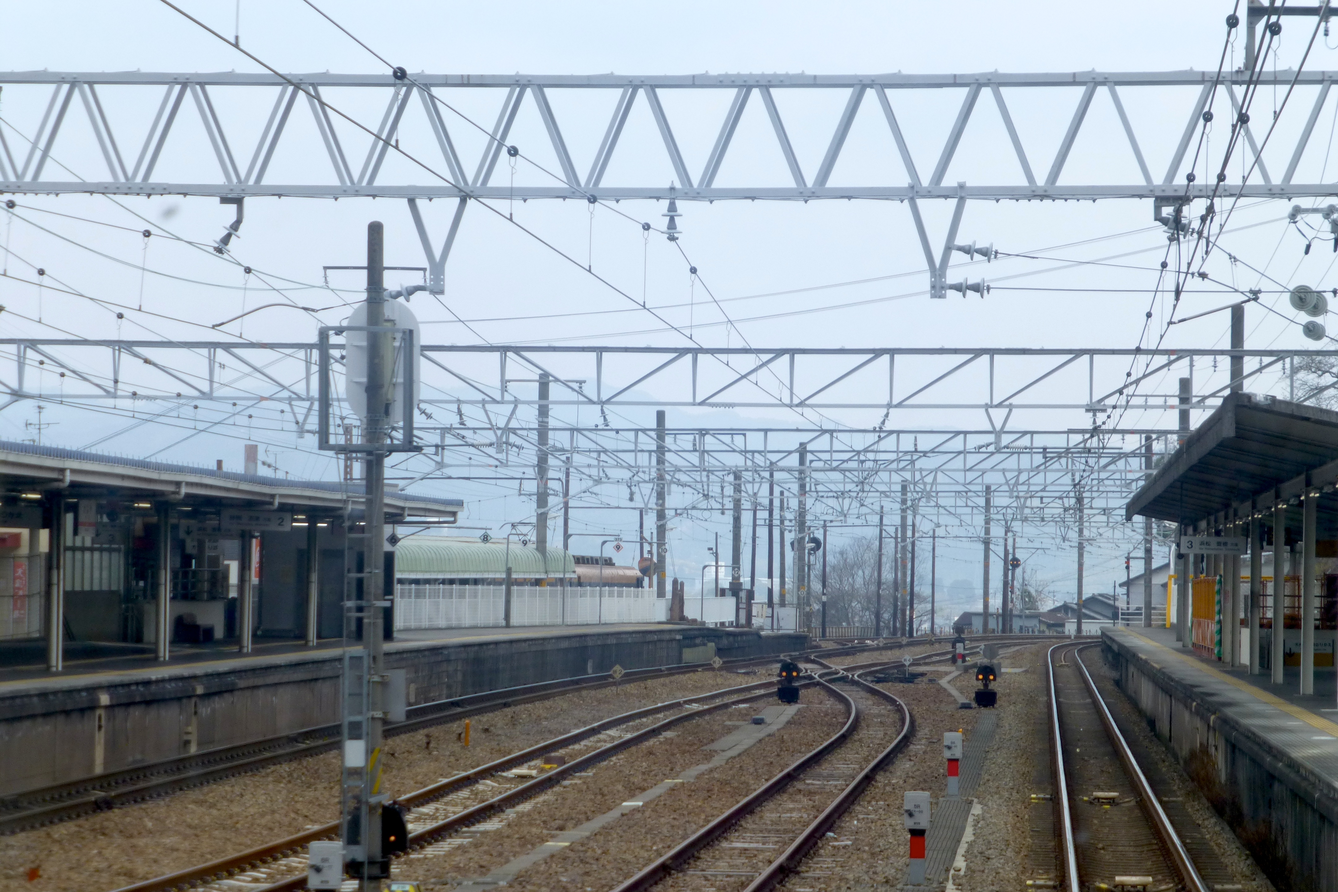 Kanaya station (金谷駅） --- showing the station platforms.